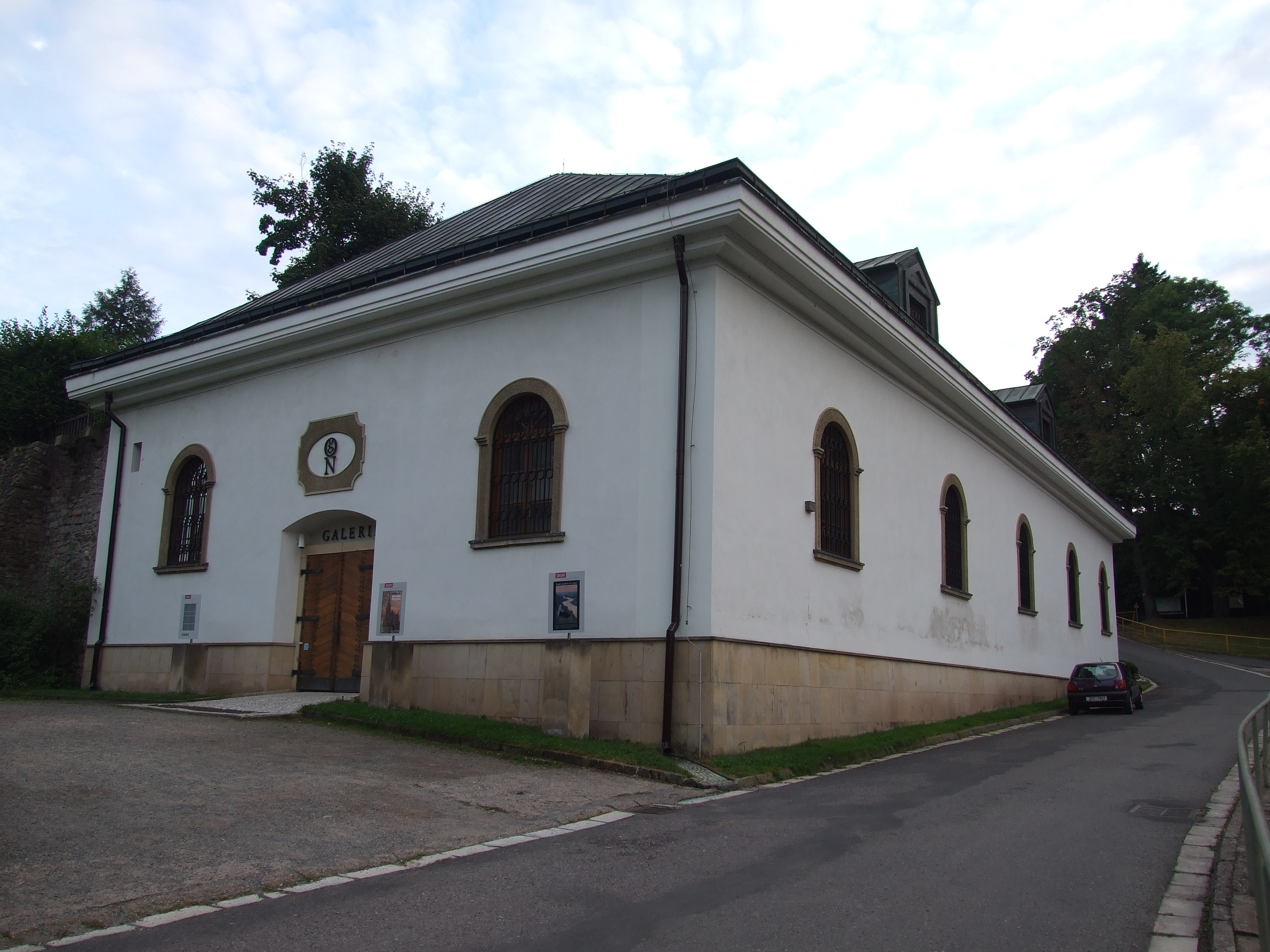 Riding hall, today used as gallery. Castle of Náchod